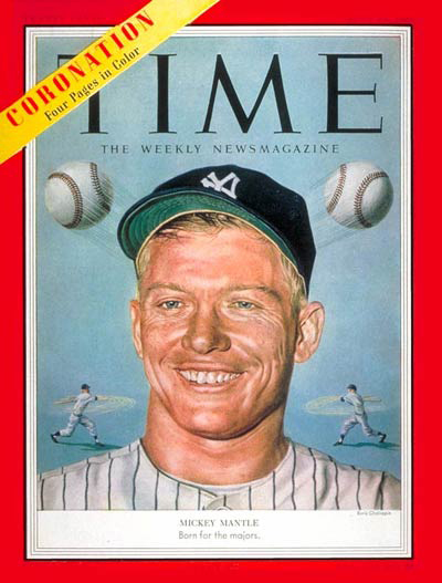 Time magazine, Volume 61 Issue 24. Front cover is an illustration of Mickey Mantle.